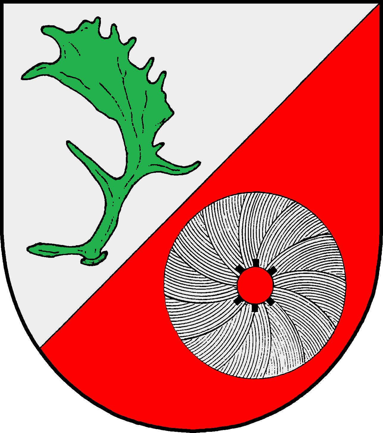 Coat of arms of the municipality Damsdorf in Schleswig-Holstein, Germany.